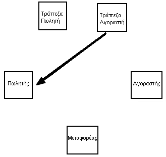 After a contract is concluded between buyer and seller, buyer's bank supplies a letter of credit to seller.